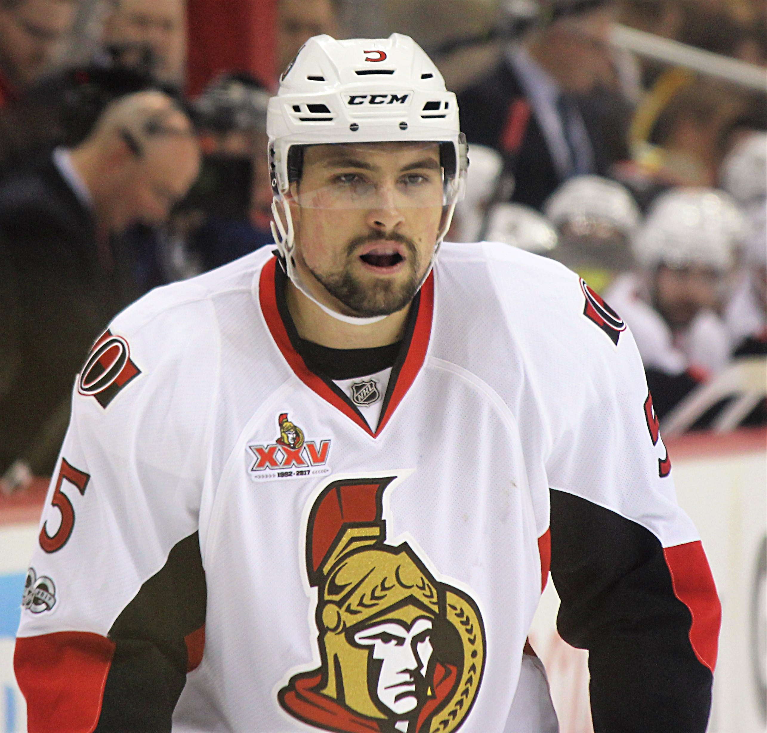 Ottawa Senators defenseman Cody Ceci during a playoff game against the Pittsburgh Penguins, May 13, 2017, at PPG Paints Arena in Pittsburgh, PA.